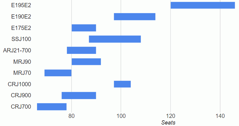 Current and future generation regional jets and small narrowbodies, based on CAPA and Bombardier, updated, editable google doc